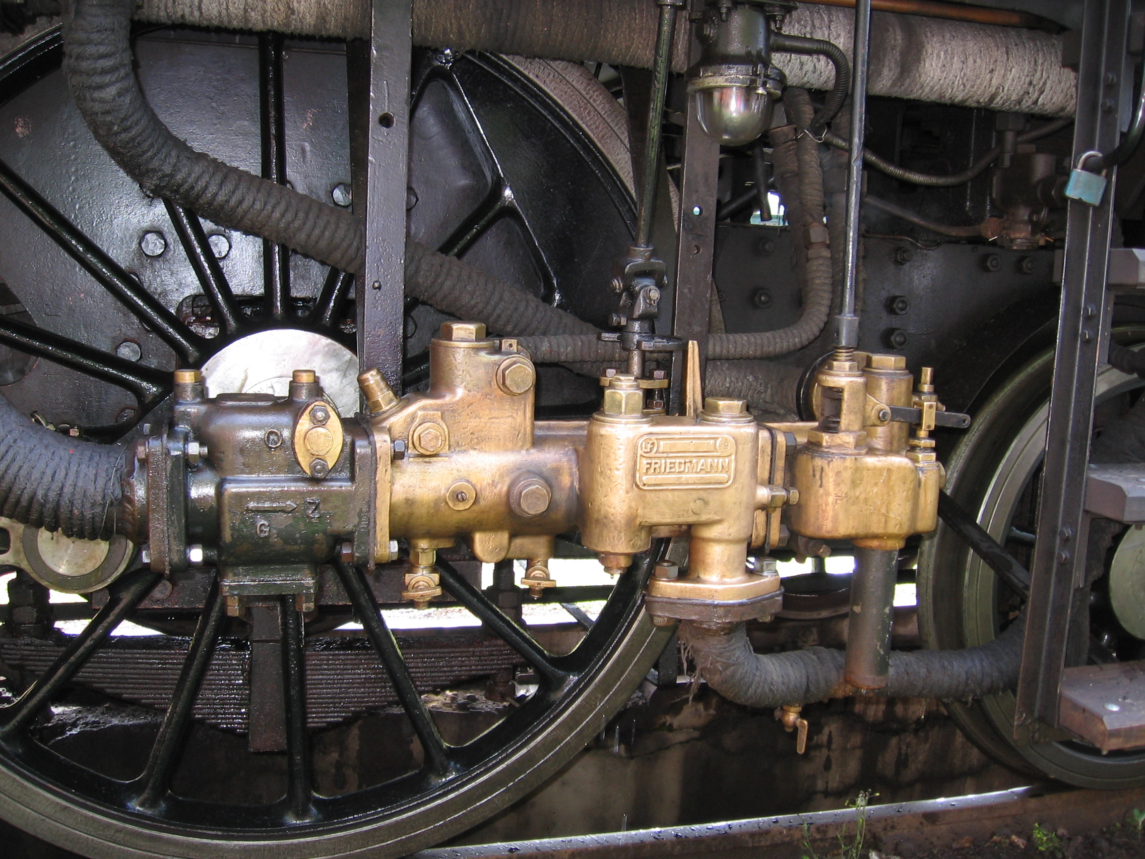 Injector for exhaust steam on ČSD 354.195